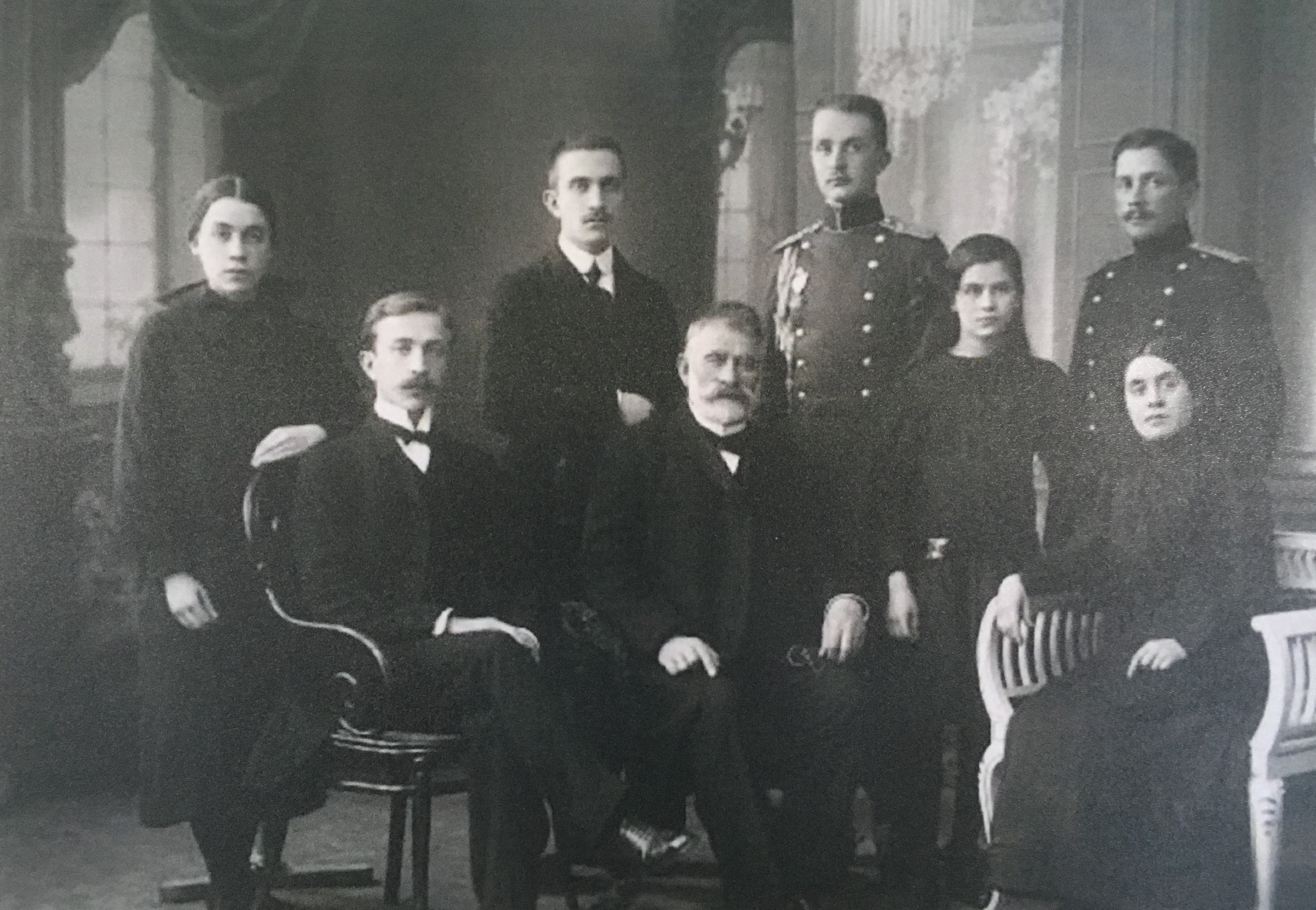 New Bulgarian University Archive - Ivan Sarailiev